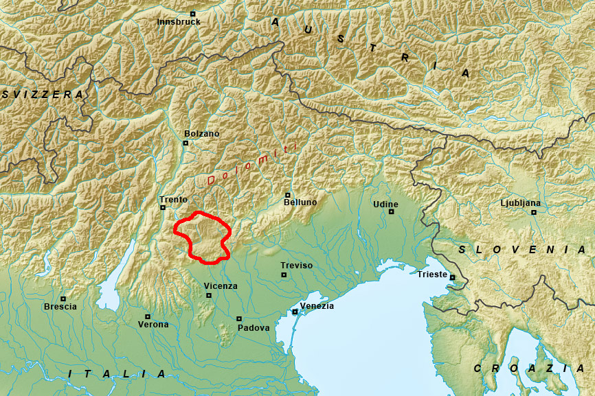 Map of Asiago Plateau, Italy